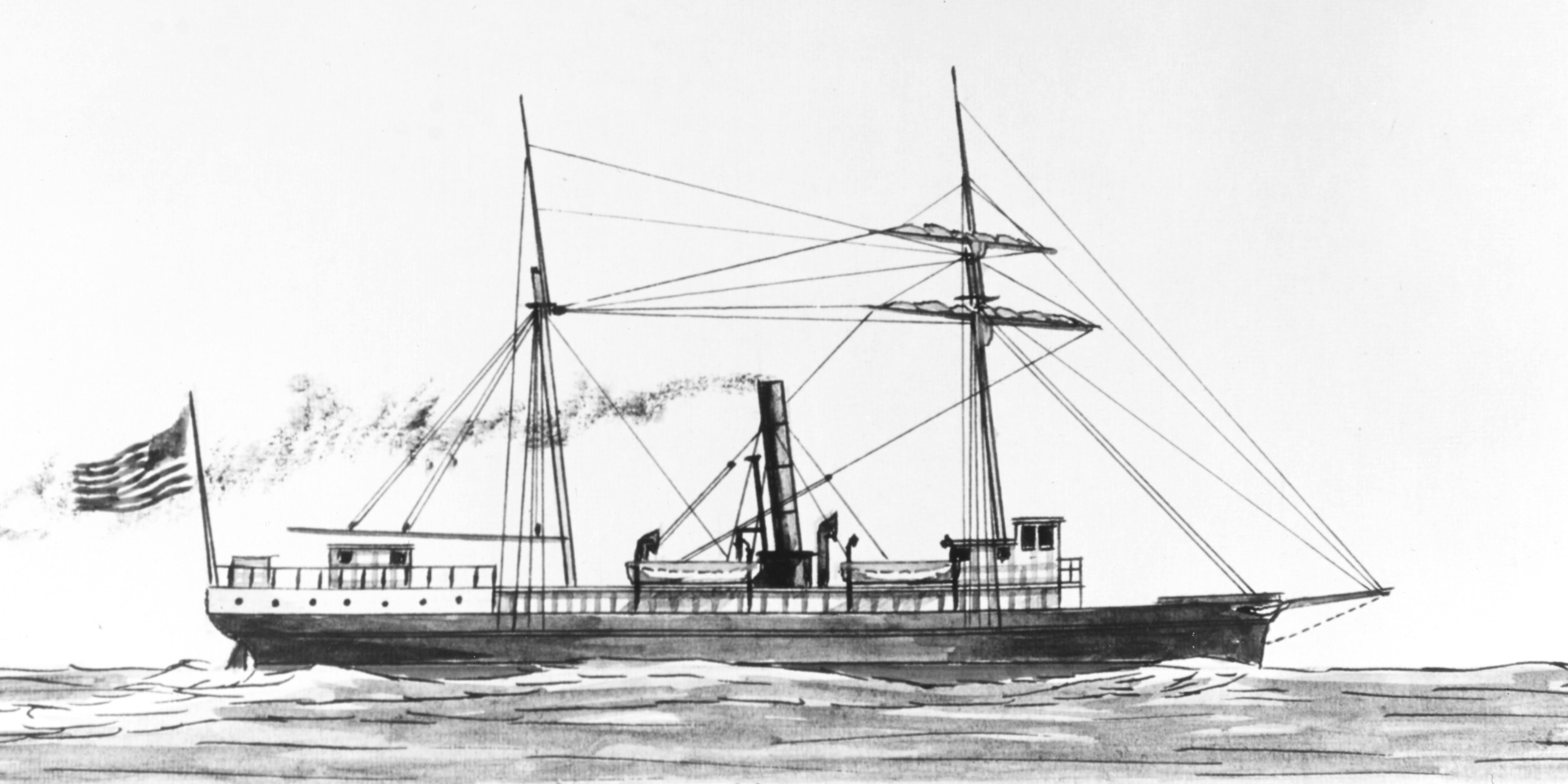 The steamship Fah-Kee built in 1862 in New York. Originally intended for Chinese service, Fah-Kee instead went into service along the United States East Coast, and in 1863 was requisitioned by the U.S. Navy for service as an armed collier and freighter with the name USS Fahkee. After the war, she returned to merchant service and in 1872 was renamed Pictou.